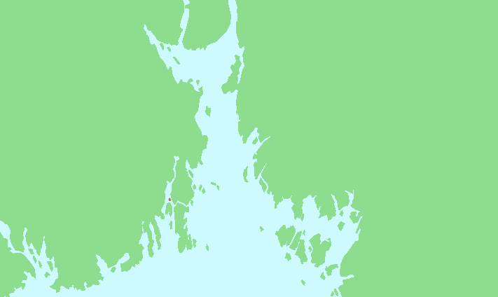 Locator map of Håøya, Vestfold, Norway